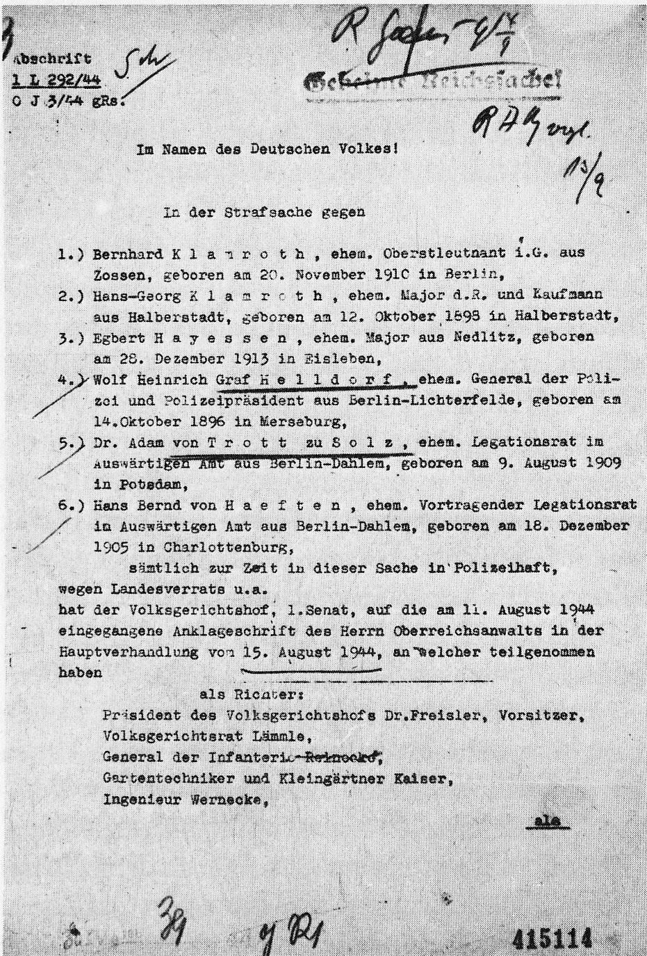 Judgement in connection with 20 July plot by Roland Freisler (People's Court, 15th August 1944). The plotters and condemned men were Bernhard Klamroth, Wolf-Heinrich Graf von Helldorf, Adam von Trott zu Solz and Hans Bernd von Haeften.